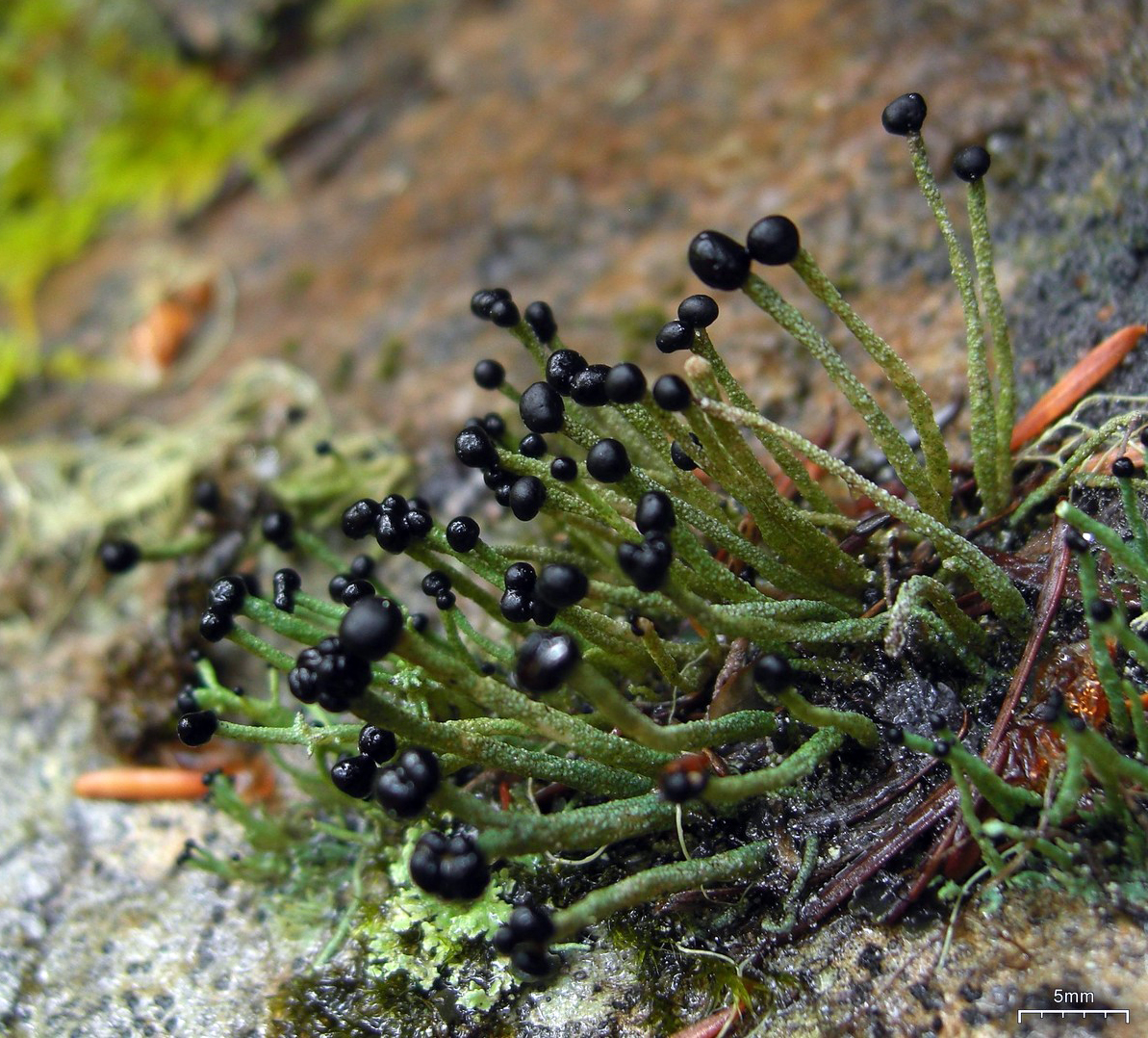 The lichen Pilophorus acicularis. Original image cropped and levels adjusted slightly by uploader.